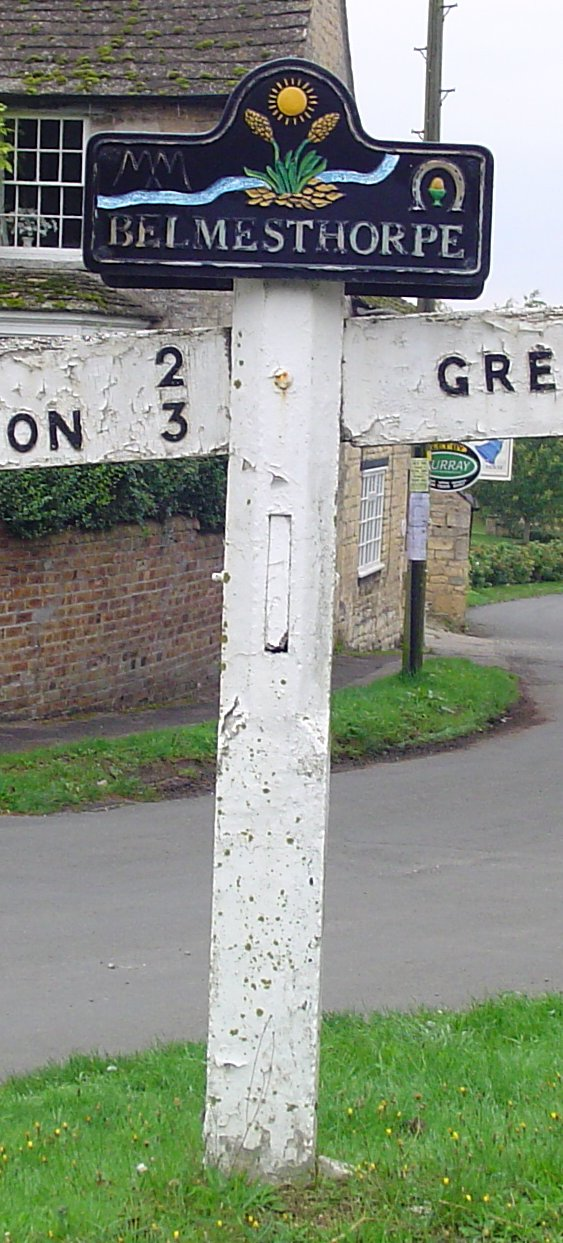 Signpost in Belmesthorpe